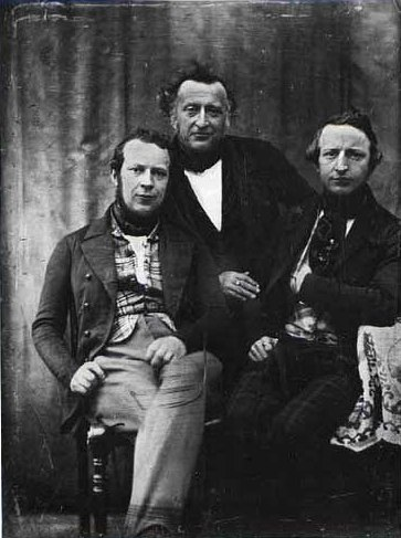 Emil Erslev (1817-1882), Danish music publisher, Jacob Erslev (1819-1902), Danish publisher, and Poul Erslev (1799-1877), Danish organ player